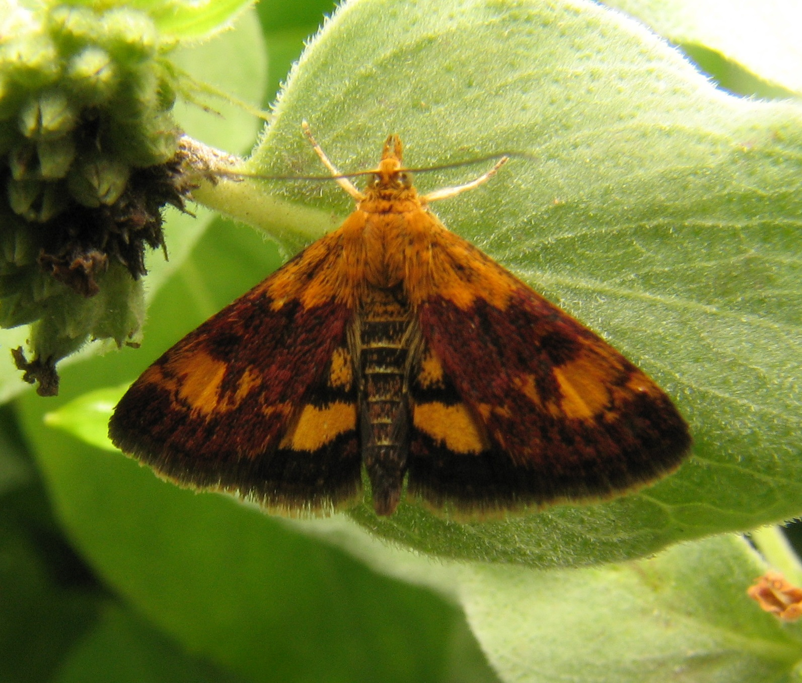 Orange Mint Moth, Pyrausta orphisalis on mountain mint. Churchville Nature Center, Bucks County, Pennsylvania, USA.